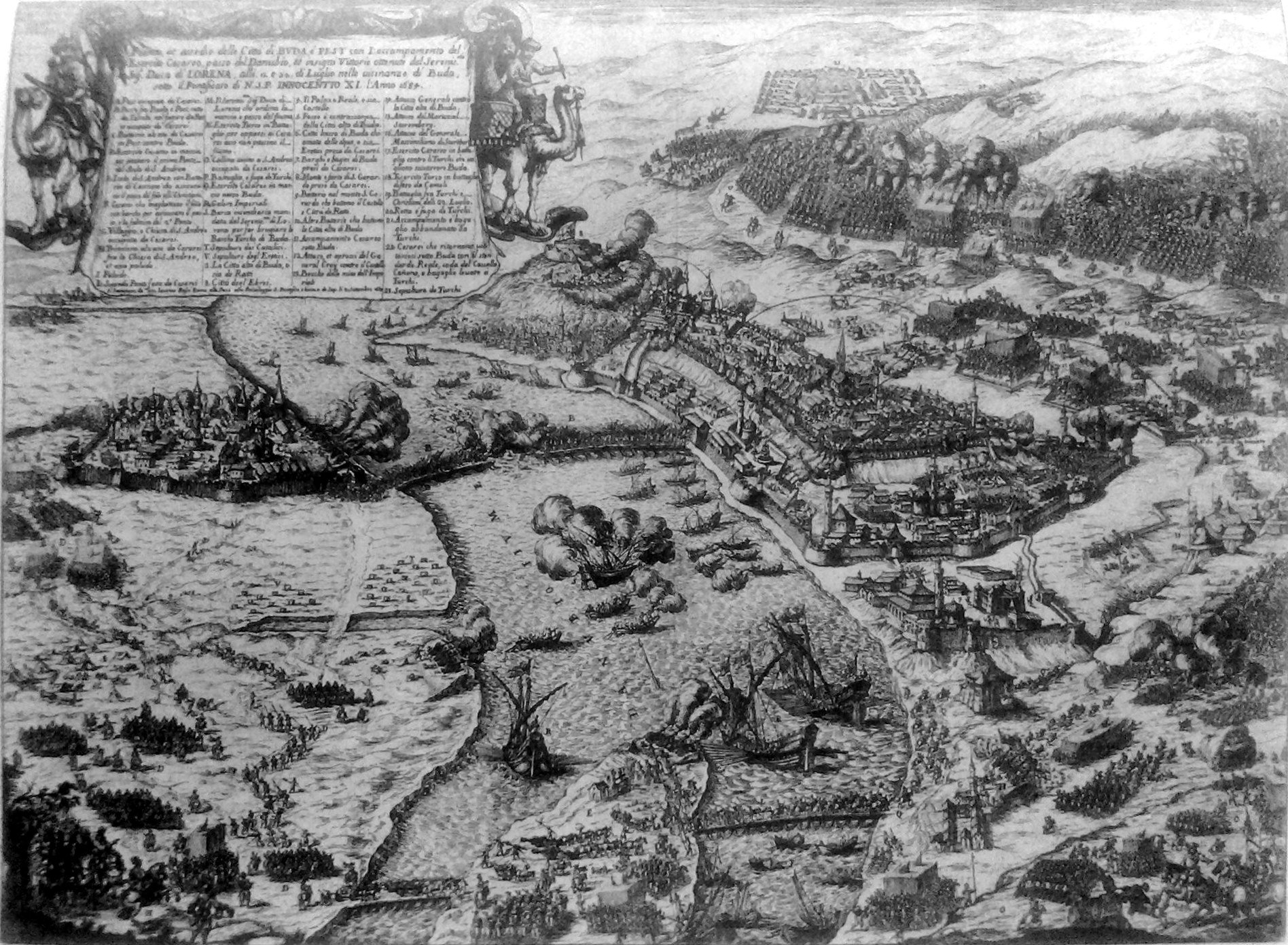 Siege of Buda, 1684 by G.G. de Rossi.